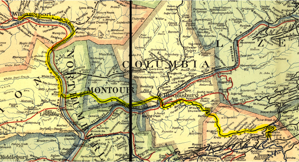 Map of Catawissa Railroad (CRR) as of 1895. Established 1860 as successor to the Catawissa, Williamsport and Erie Railroad. The CRR was leased by the Philadelphia and Reading Rail Road (Reading RR) in 1872, as indicated on this 1895 map. CRR was formally merged with Reading RR in 1953 and then labeled as the Catawissa Branch. Portions of the branch line were abandoned in 1950s and 1960s. Conrail acquired the Reading RR in 1976, then abandoned the remaining sections. Original map cropped and CRR rail line highlighted.